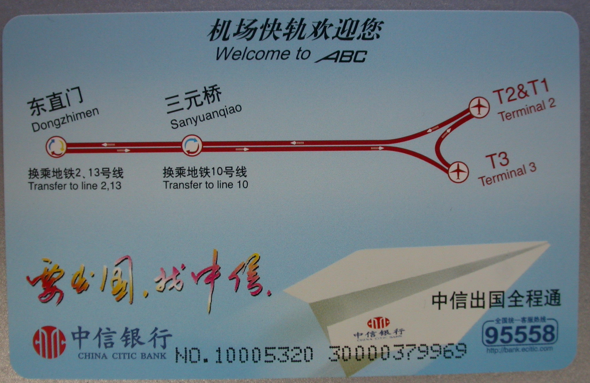 The card of Airport Line Beijing Subway car 中文（中国大陆）: 机场快轨磁卡车票